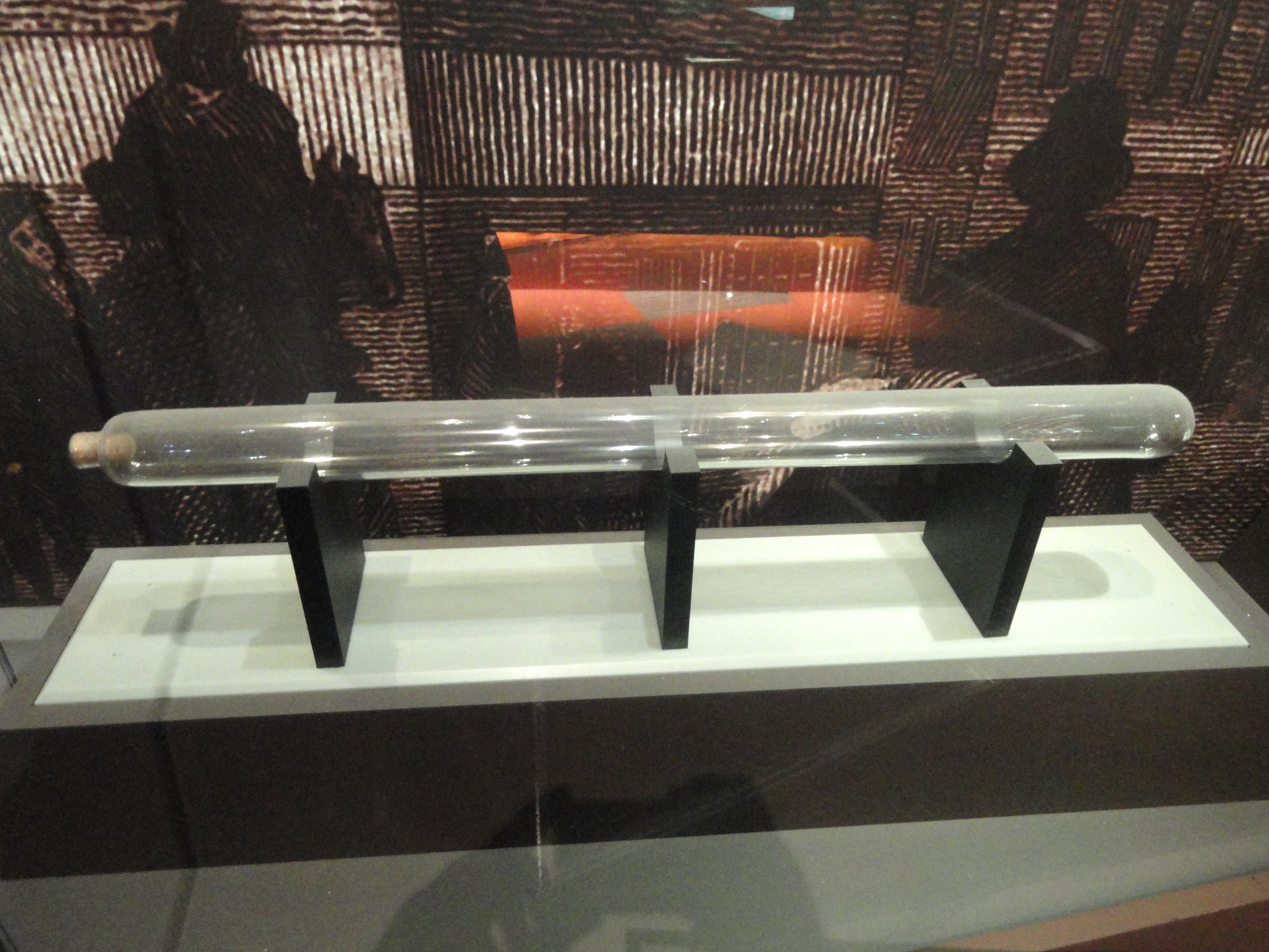 Exhibit from the Benjamin Franklin collection in the Franklin Institute, Philadelphia, Pennsylvania, USA.